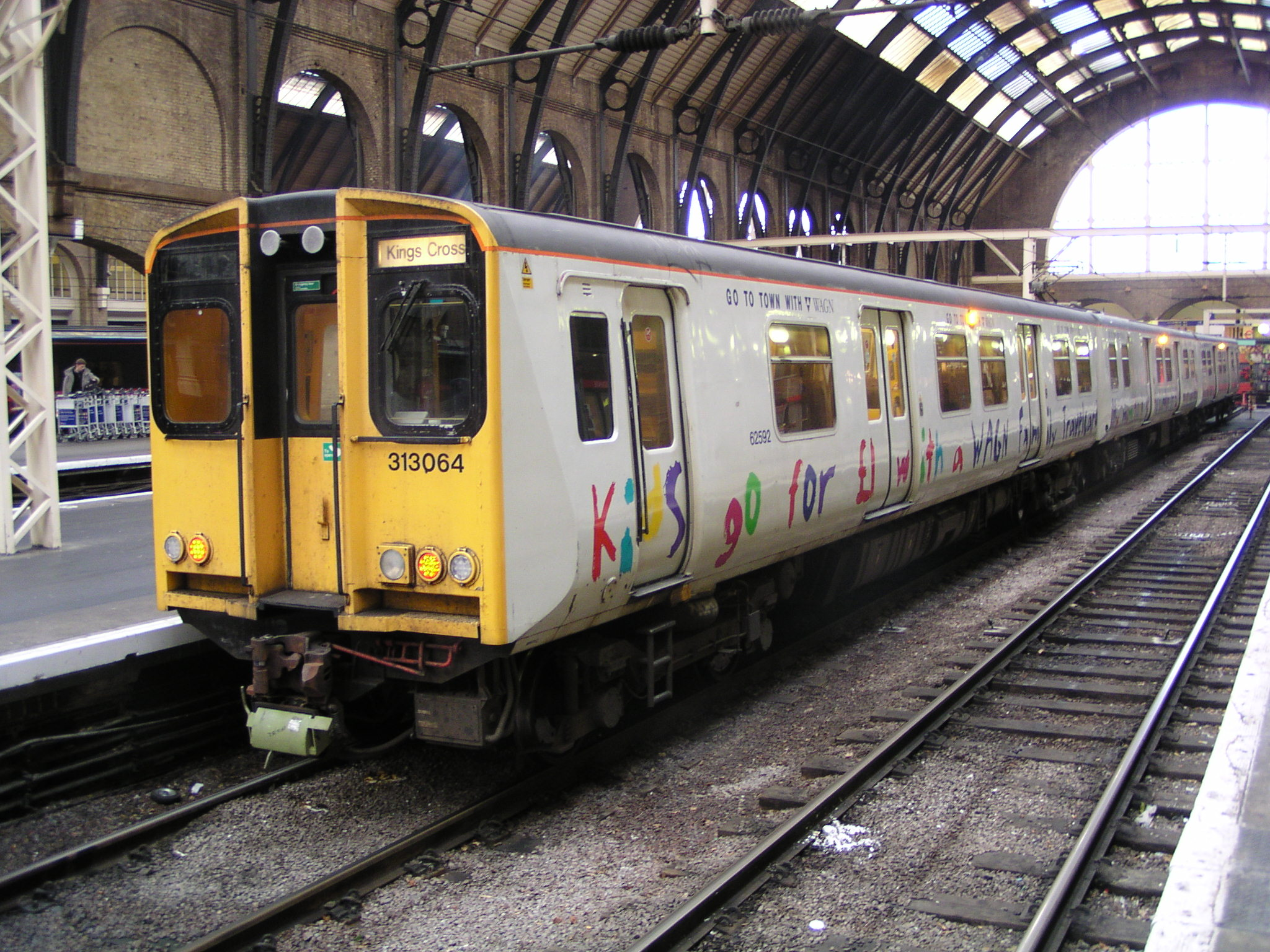 BR Class 313/0, no. 313064 at London King's Cross on 8th February 2003. This unit is painted in WAGN travelcard advertising-livery. Image by Phil Scott (Our Phellap)